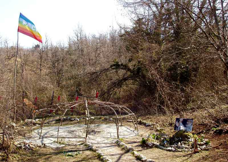 Frame from an inipi sweat lodge, for a Lakota ritual.